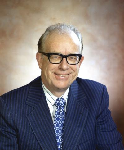 Representative John L. O'Brien, 1973